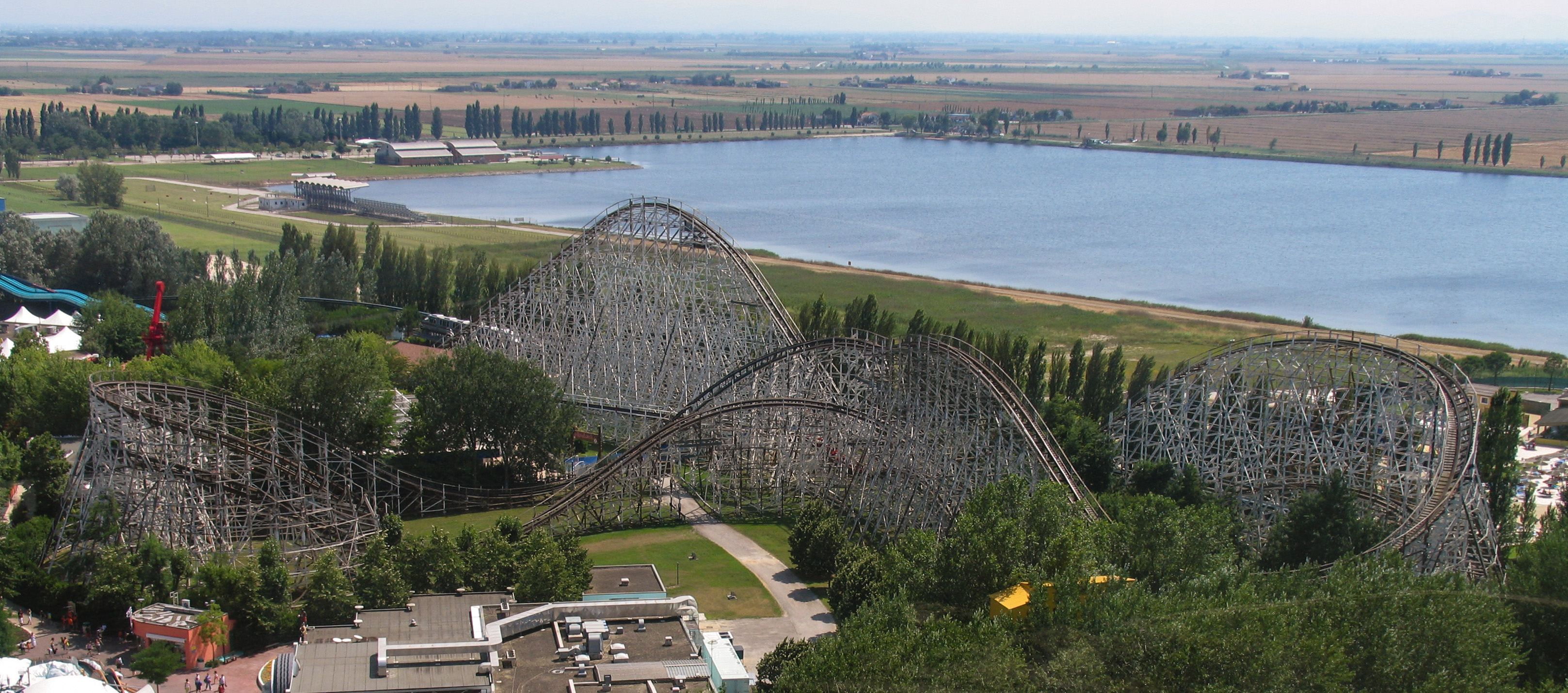 Wooden roller coaster Sierra Tonante at Mirabilandia, 2007